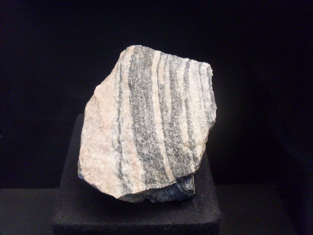 A fragment of the Acasta Gneiss, the oldest known rock outcrop in our planet. In exhibition at the Natural History Museum in Vienna